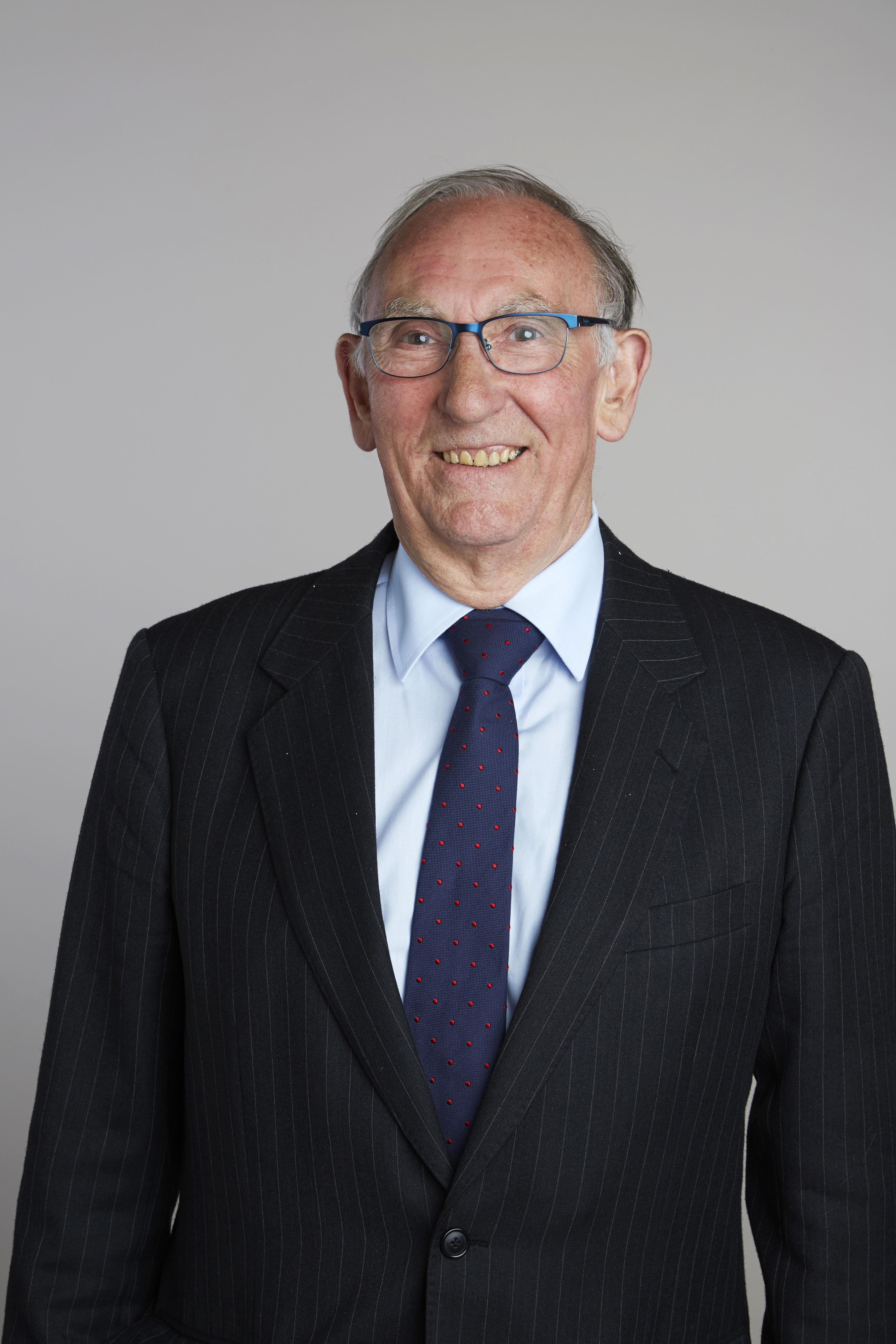 Roger Sheldon is a recognised authority on Green Chemistry and Catalysis and is widely known for developing the concepts of E factors and atom utilisation for assessing the environmental footprint of chemical processes. He is Professor Emeritus of Biocatalysis and Organic Chemistry of Delft University of Technology and Chief Executive Officer of CLEA Technologies. His research interests are in green chemistry, (bio)catalysis and enzyme immobilization. Among other awards, he received the RSC 2010 Green Chemistry Award “in recognition of the role that he has played as one of the founding fathers of green chemistry and in particular for his work on the development of clean, catalytic technologies for waste minimization and elimination of toxic/hazardous materials in chemicals manufacture”. He was elected Fellow of the Royal Society in 2015. He has a Ph.D. from the University of Leicester (UK) and prior to joining Delft University, in 1991, he had 20 years industrial experience, as Vice President for Research & Development at DSM / Andeno from 1980 to 1990 and with Shell Research Amsterdam from 1969 to 1980. Attribution: The Royal Society